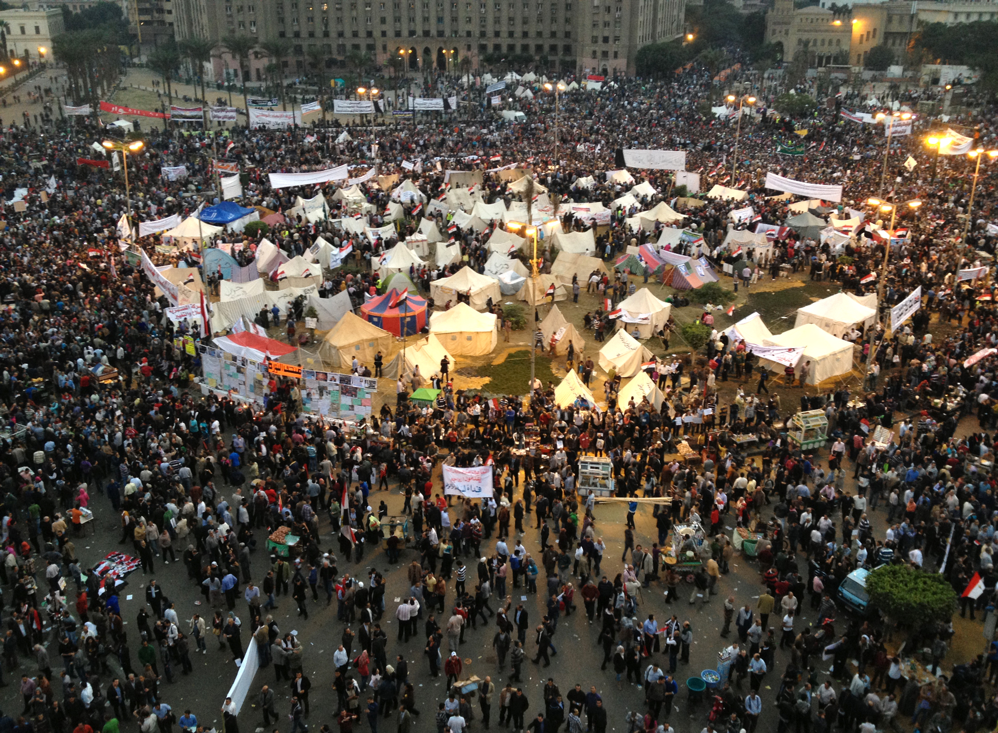 Original description: "A shot of Tahrir Square in Cairo as night falls, November 27, 2012. (J. Weeks/VOA)"; further information in VOA, 26. November 2012, "Egyptians Protest President Morsi": "Egyptians gathered in Tahrir Square Friday for an eighth day of demonstrations against President Mohamed Morsi, as an Islamist-dominated panel approved Egypt's new draft constitution."